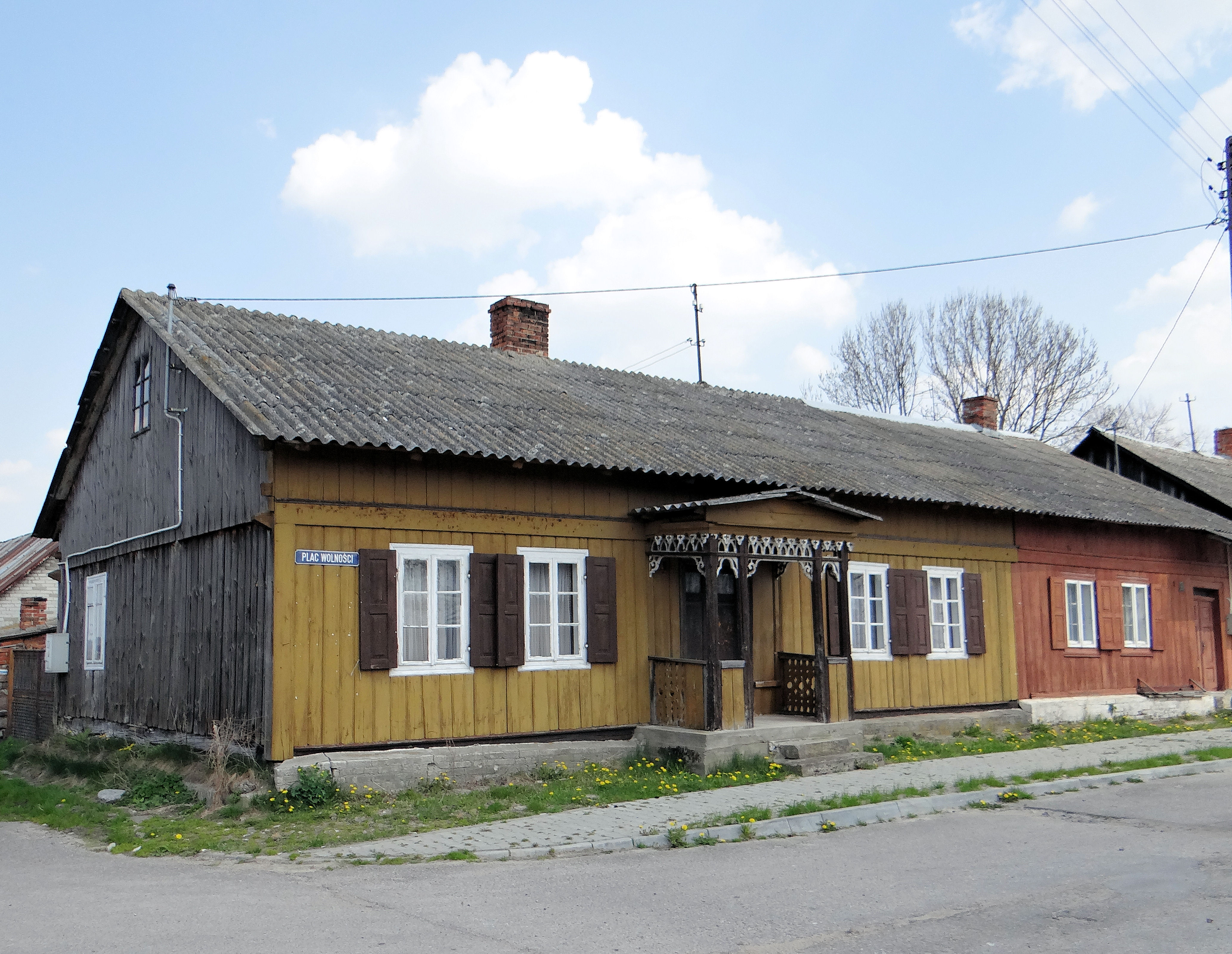 Wyśmierzyce - regional wooden buildings in Zapilicze